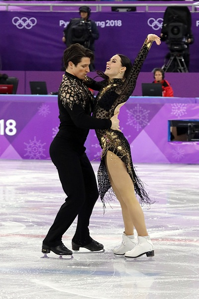 Tessa Virtue and Scott Moir at the 2018 Winter Olympic Games in PyeongChang